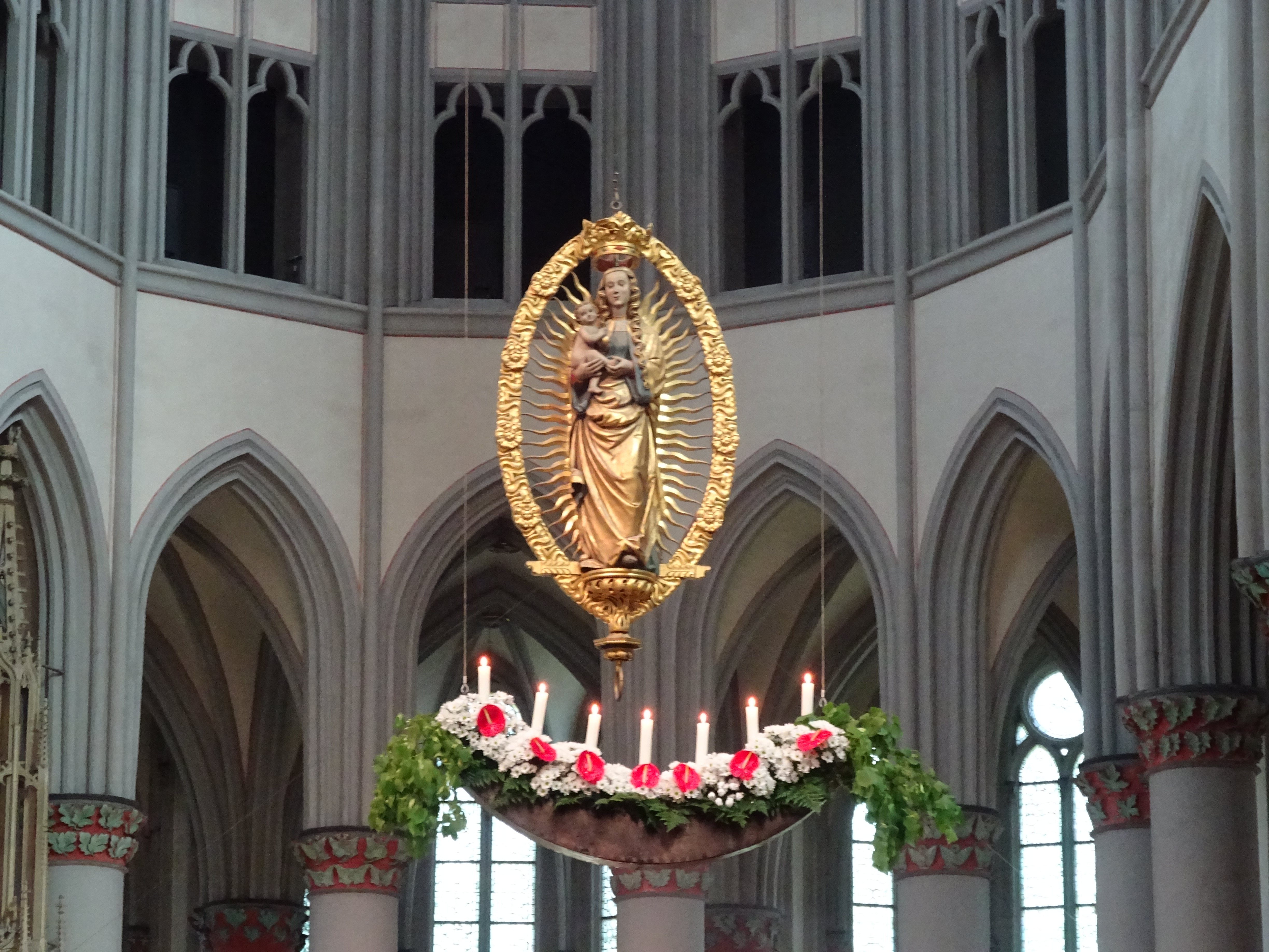 1530 sculpture of Mary in the Altenberger Dom, a venerated pilgrimage destination, decorated in the Marian month of May